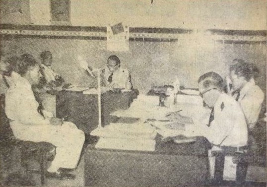 J. H. Manuhutu, President of the Republic of South Maluku is being examined at the Yogyakarta Army Court